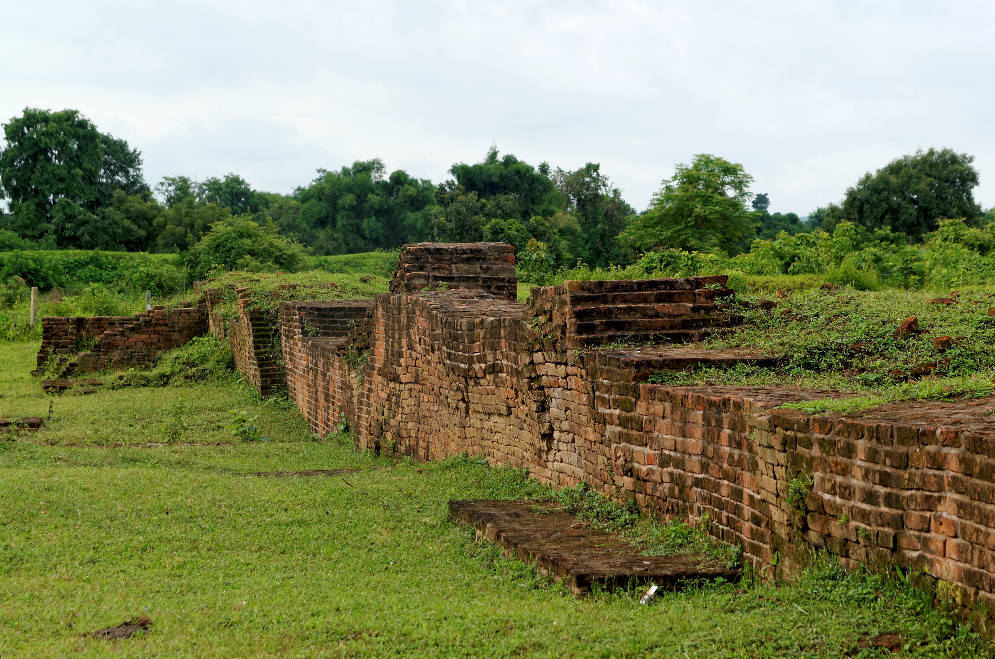 Remains of the palace-citadel at Sri Ksetra Archaeological Site in Myanmar